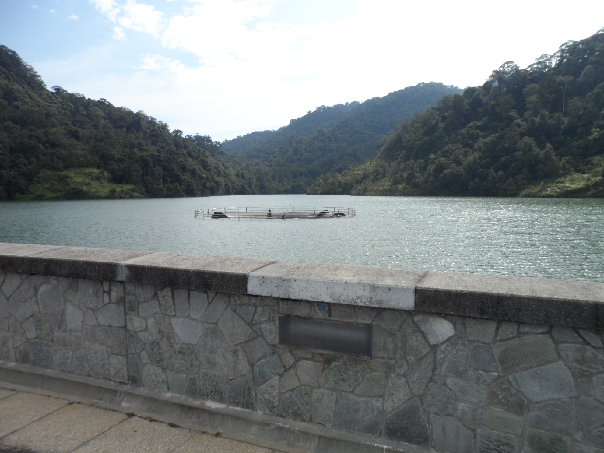 Air Itam Dam, Air Itam, Penang, Malaysia